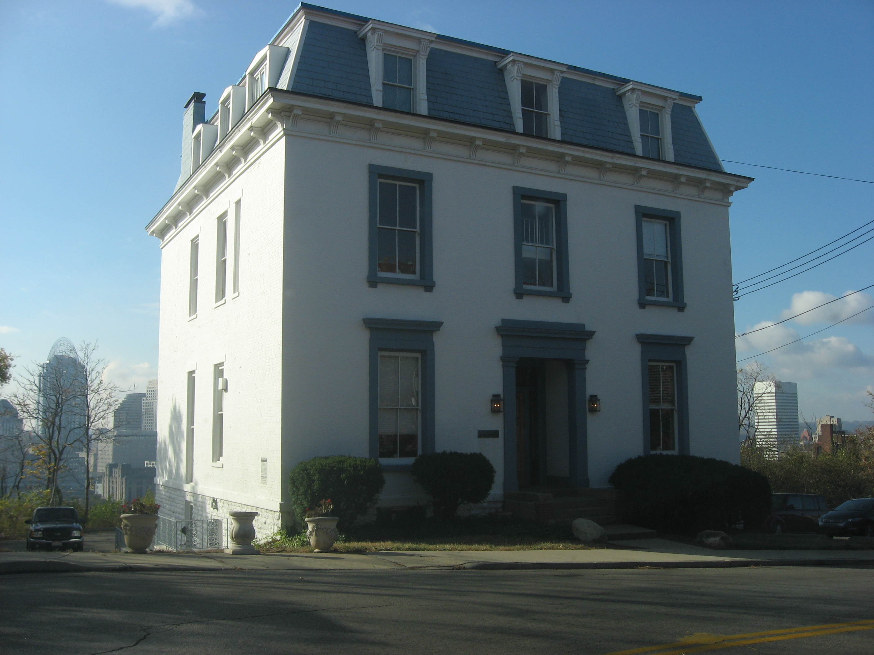 Front of the George Hunt Pendleton House, located at 559 E. Liberty Street in the Prospect Hill neighborhood of Cincinnati, Ohio, United States. Built in 1879 as the home of George H. Pendleton, it has been declared a National Historic Landmark, and it is a part of the Prospect Hill Historic District, a historic district that is listed on the National Register of Historic Places.